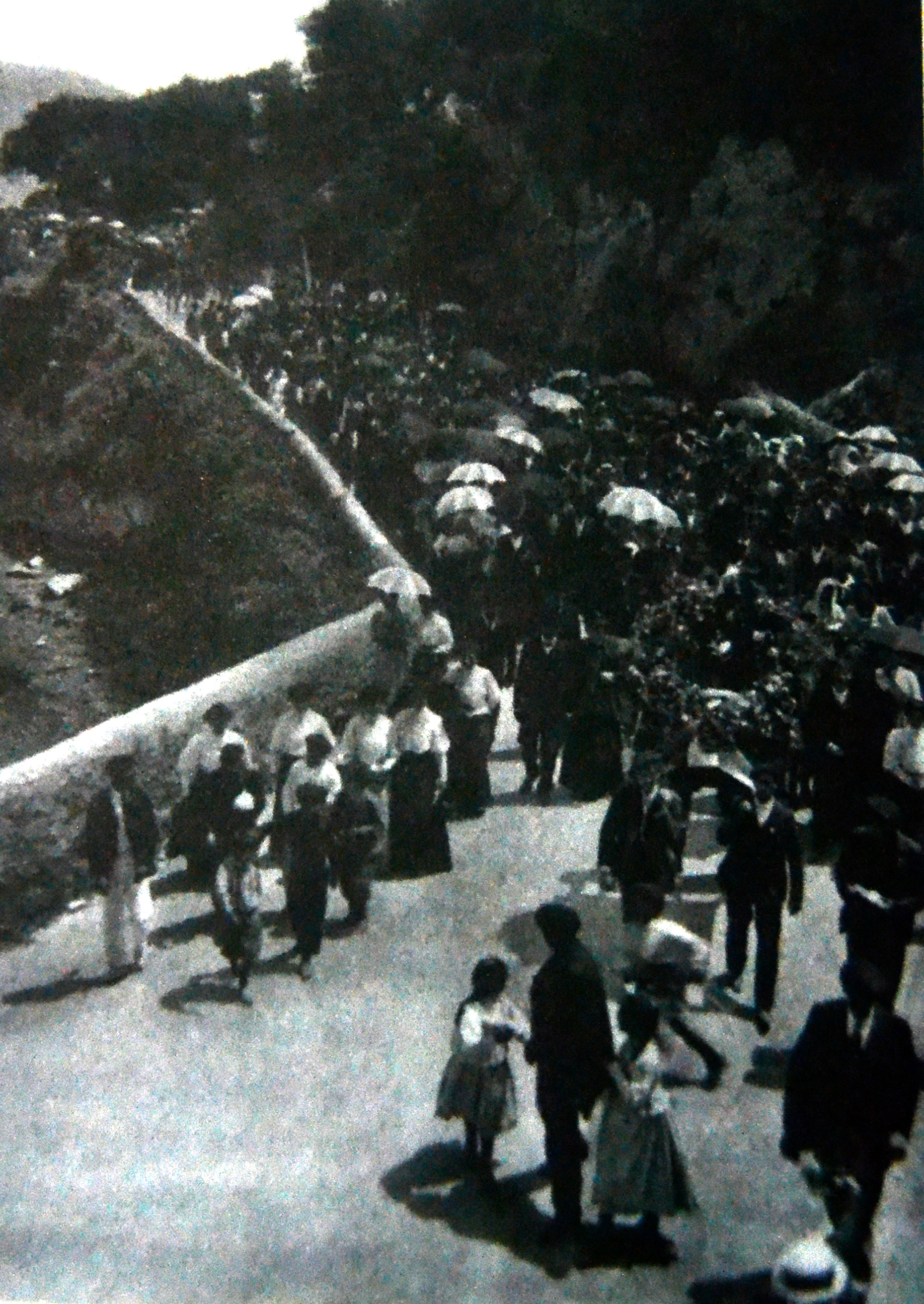 Funeral of Sabino Arana in Sukarrieta, 1903